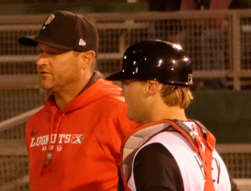 Coach Jeff Ware of the Lansing Lugnuts conducts on mound visit during a 2016 game.